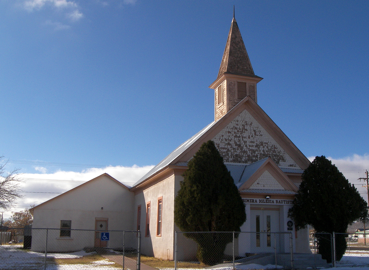 The First Presbyterian Church at Fannin and 3rd St, Van Horn, Texas, United States. The church was designated a Recorded Texas Historic Landmark in 1964 and listed on the National Register of Historic Places on December 1, 1978.